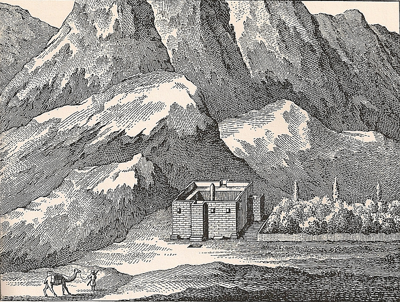 Saint Catherine's Monastery, Mount Sinai. Drawing by Carsten Niebuhr, 1762